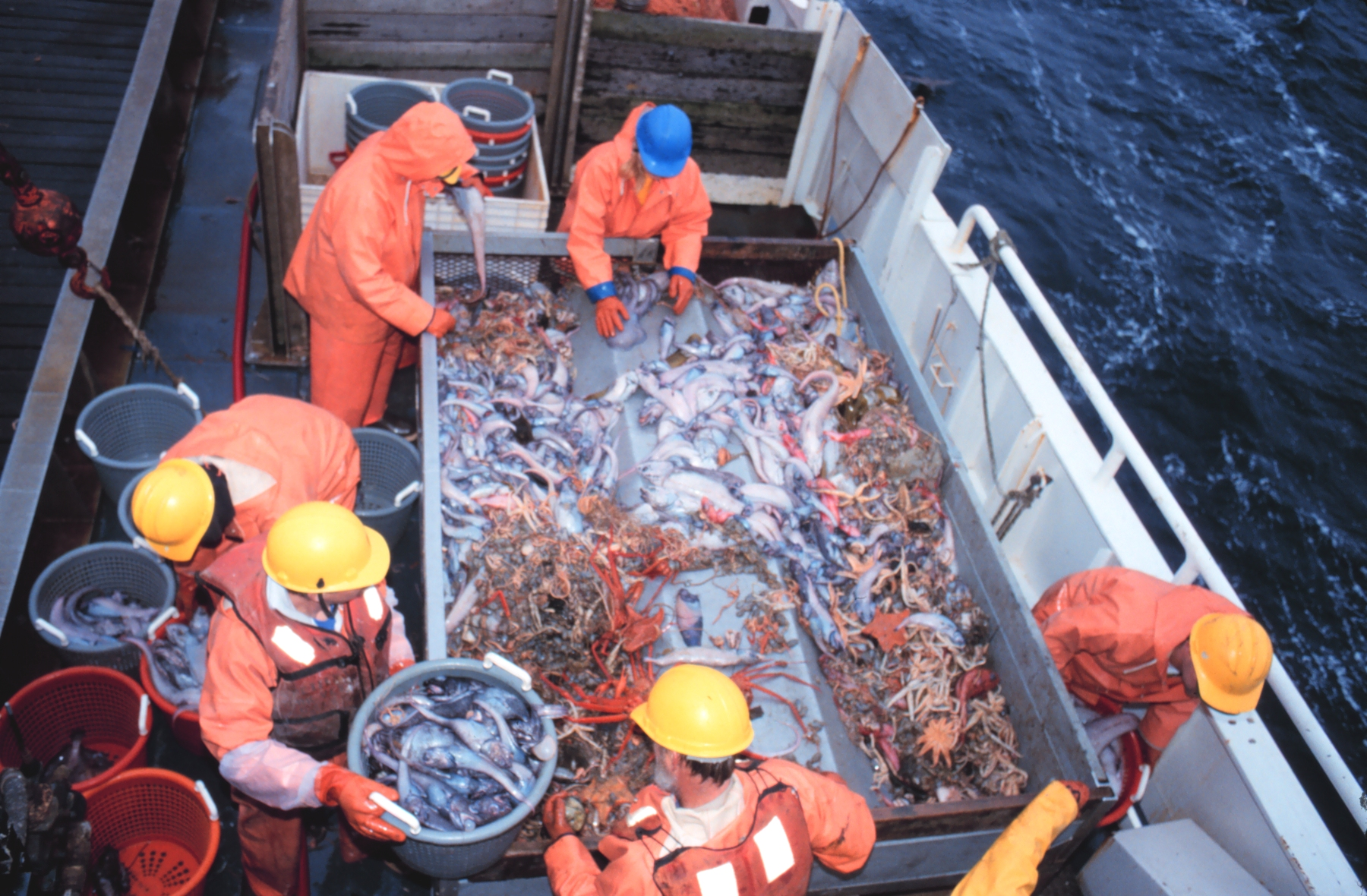 Sorting the catch. 1999 Fall.